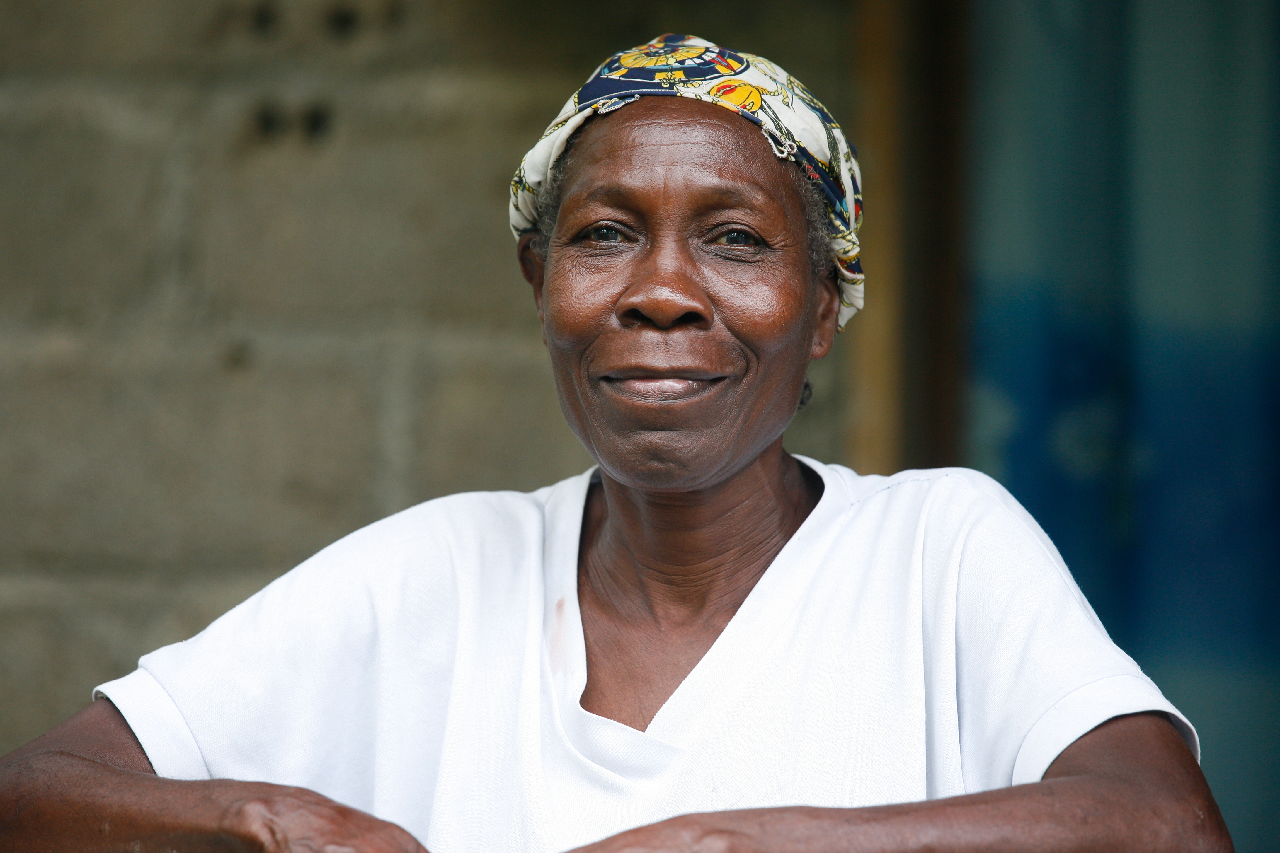 Haitian Elegance